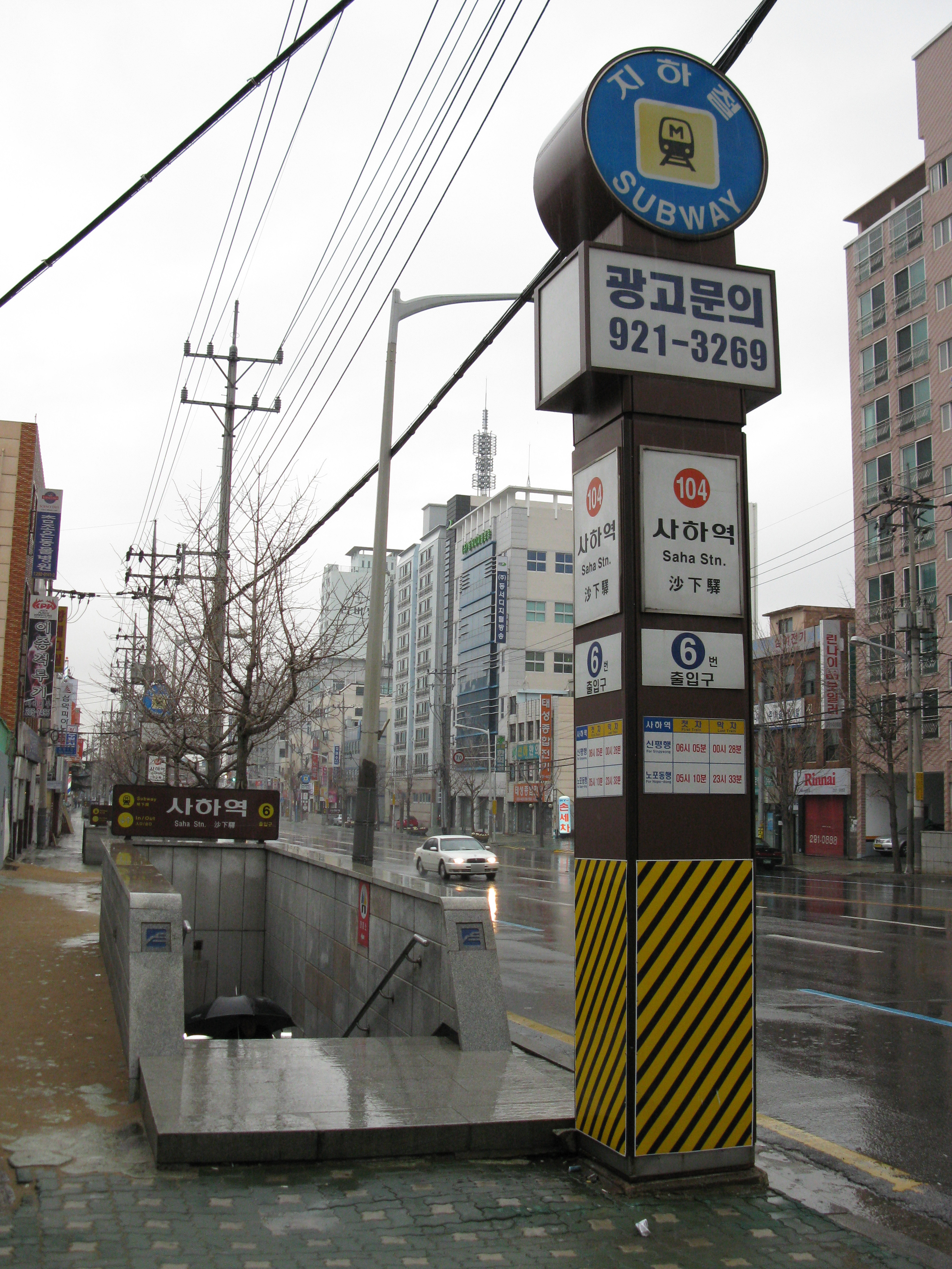 Saha Station no.6 entrance (Busan Subway Line 1)